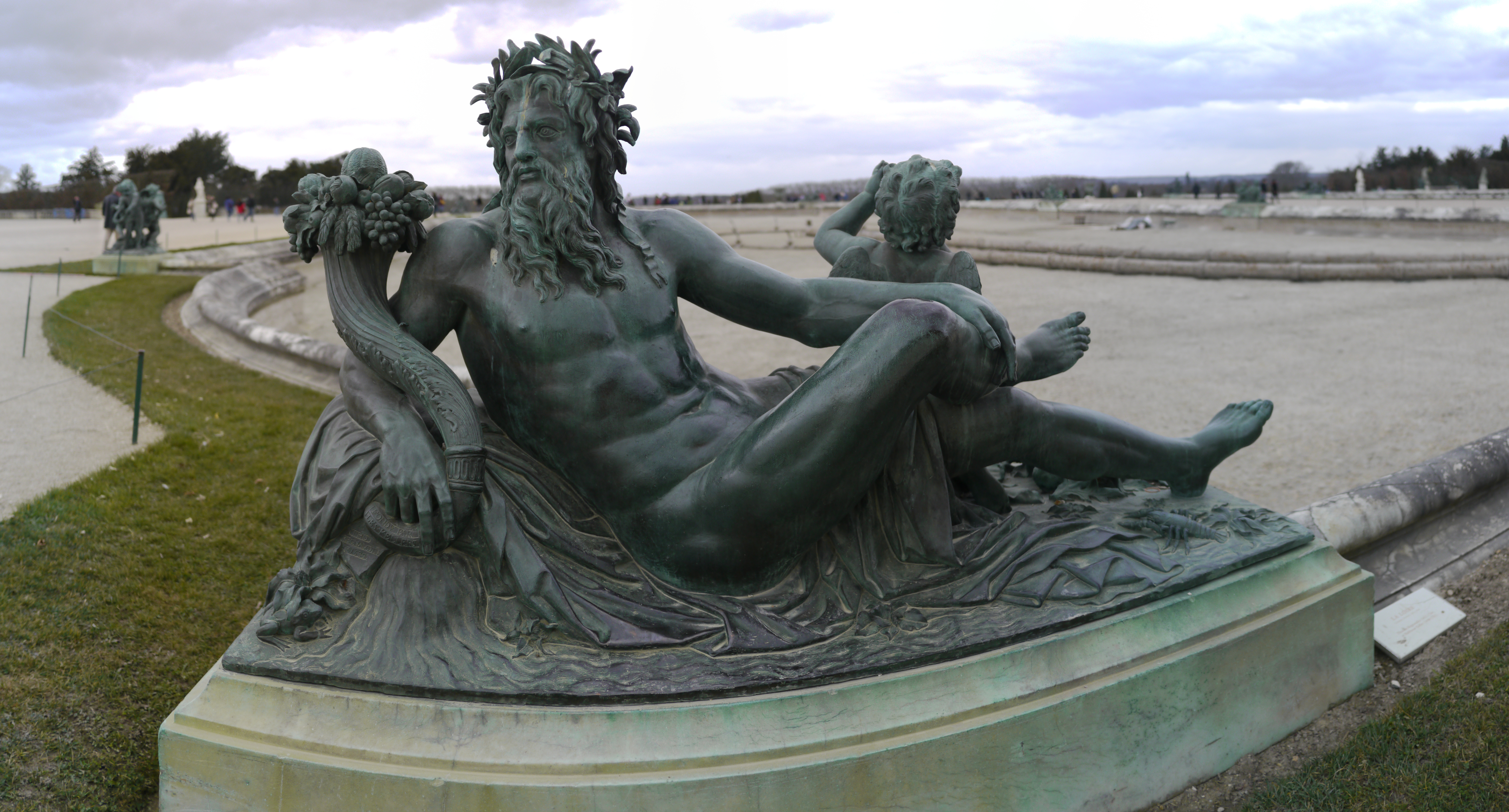 Statue of the Parterre d'Eau of the Château de Versailles' in France.